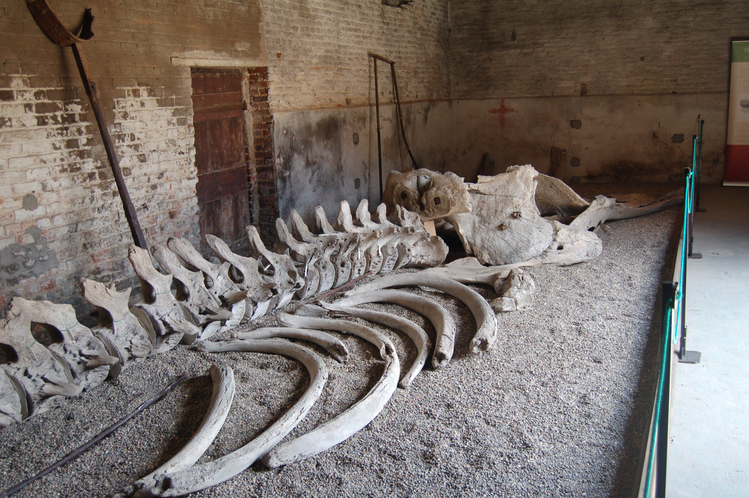 Whale bones on show at Burton Constable Hall, Burton Constable, East Riding of Yorkshire, England.Burton Constable Hall is in the East Riding of Yorkshire. A trust operates the site and it is worth a visit, especially for the architecture.